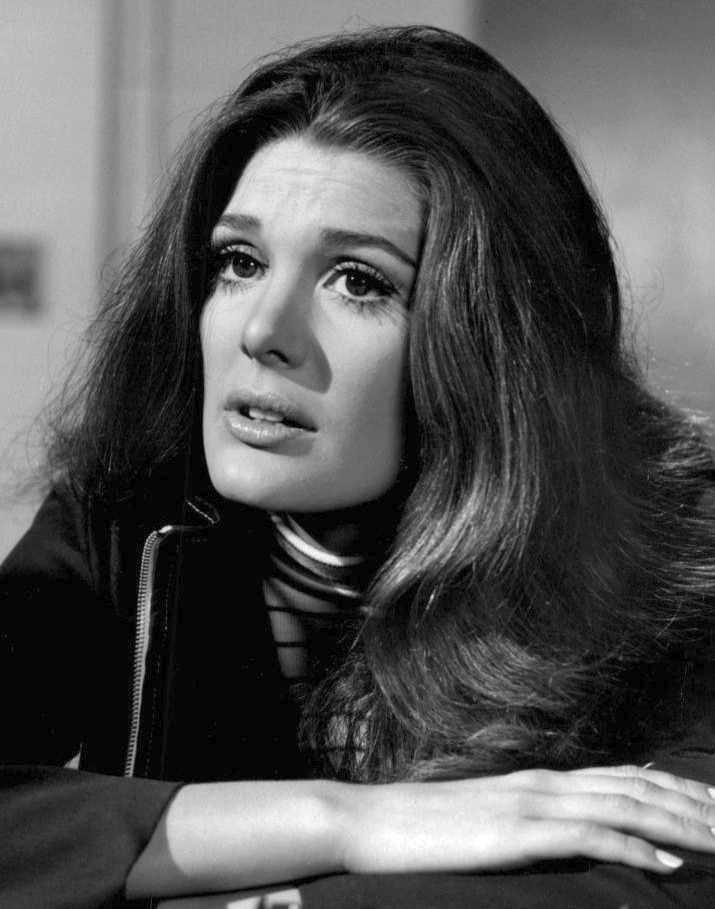 Photo of actress Carla Borelli from a guest appearance on the television program Mannix.